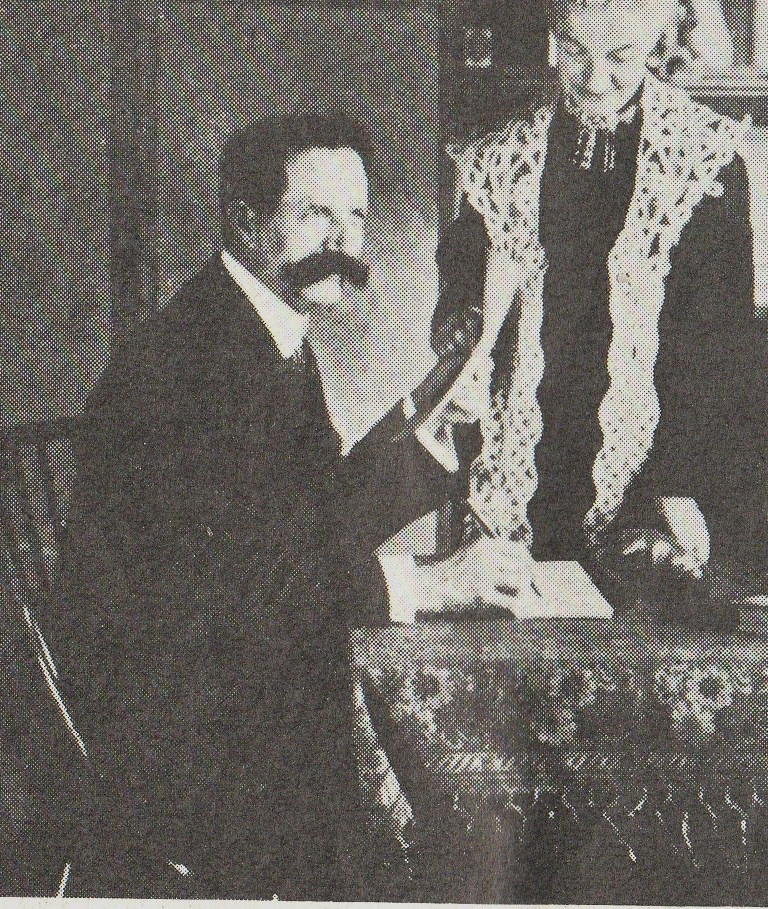 Photograph of G. E. Farrow (1862 – c. 1920).